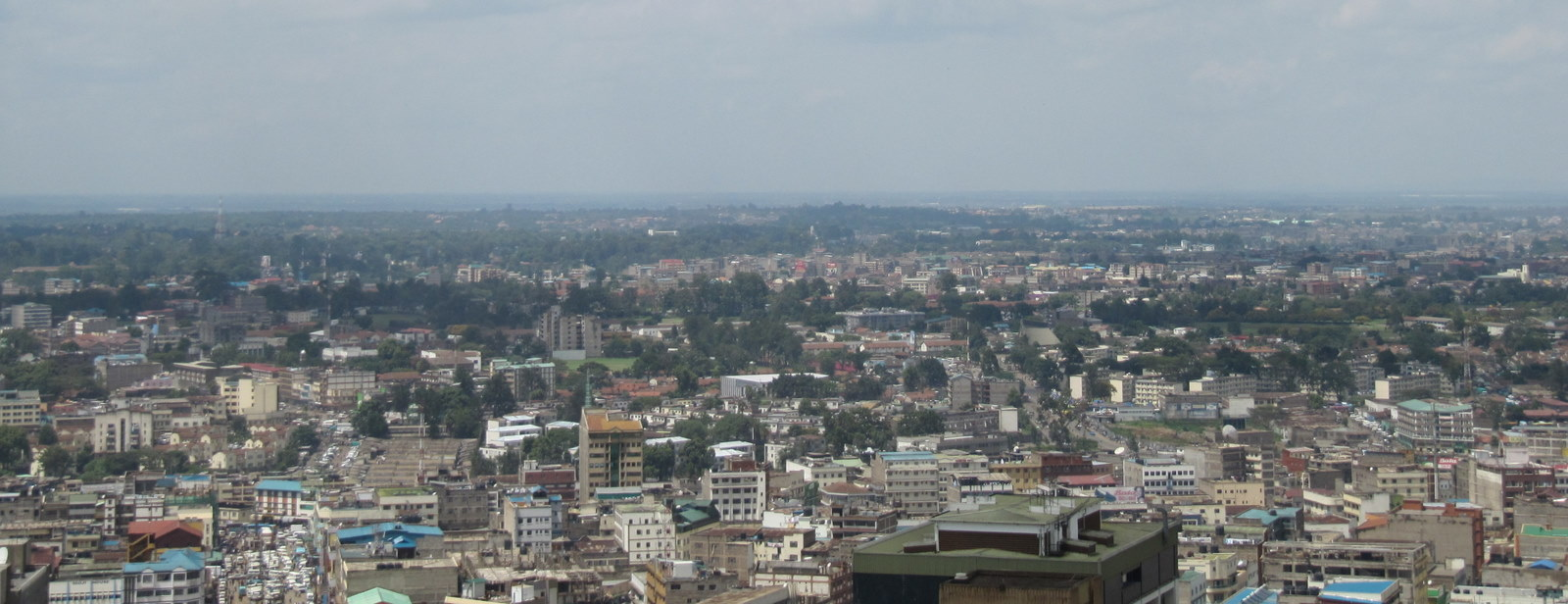 Nairobi, view from the top of Kenyatta International Conference Center, Kenya